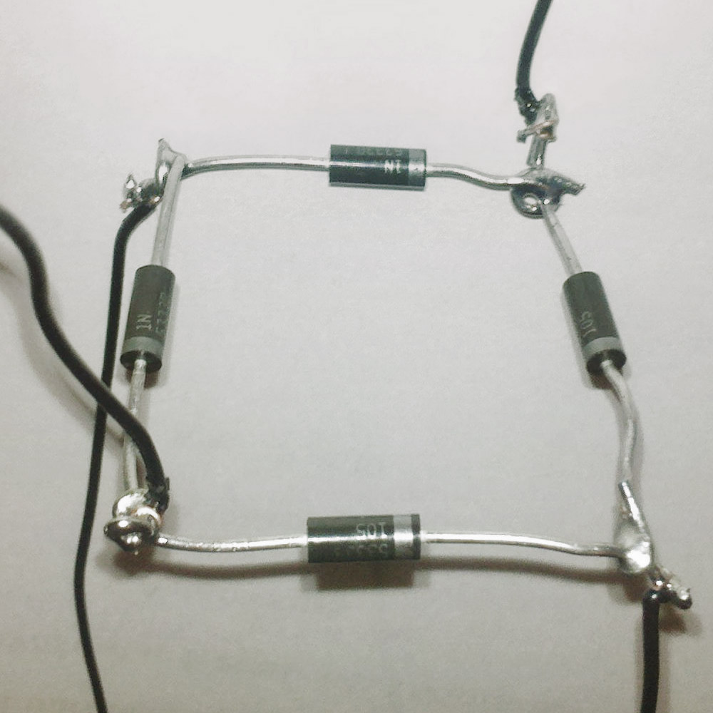 A hand soldered diode bridge for use by a hobbist.